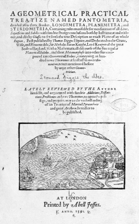 Title page to "A geometrical practical treatize named pantometria" by Leonard Digges (1520–1559). Full title: "A geometrical practical treatize named Pantometria : diuided into three bookes, longimetra, planimetra, and stereometria : containing rules manifolde for mensuration of all lines, superficies and solides, with sundrie strange conclusions both by instrument and without, and also by glasses to set forth the true description or exact platte of an whole region / first published by Thomas Digges ... ; with a mathematicall discourse of the fiue regular platonicall solides, and their metamorphosis into other fiue compound rare geometrical bodyes, conteyning an hundred newe theoremes at least of his owne inuention, neuer mentioned before by anye other geometrician. At London : Printed by Abell Jeffes, 1591."